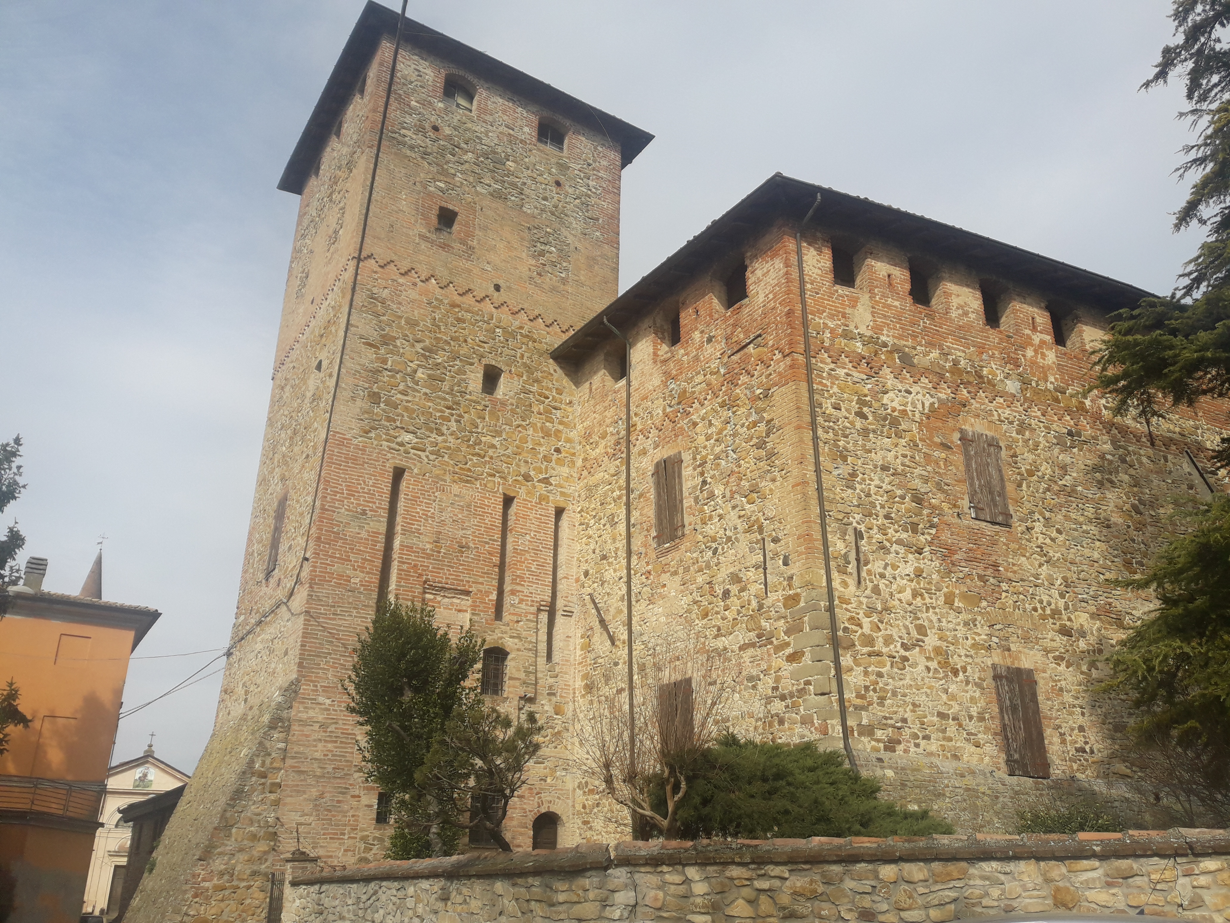 Castle of Corano, municipality of Borgonovo Val Tidone, Piacenza, Italy